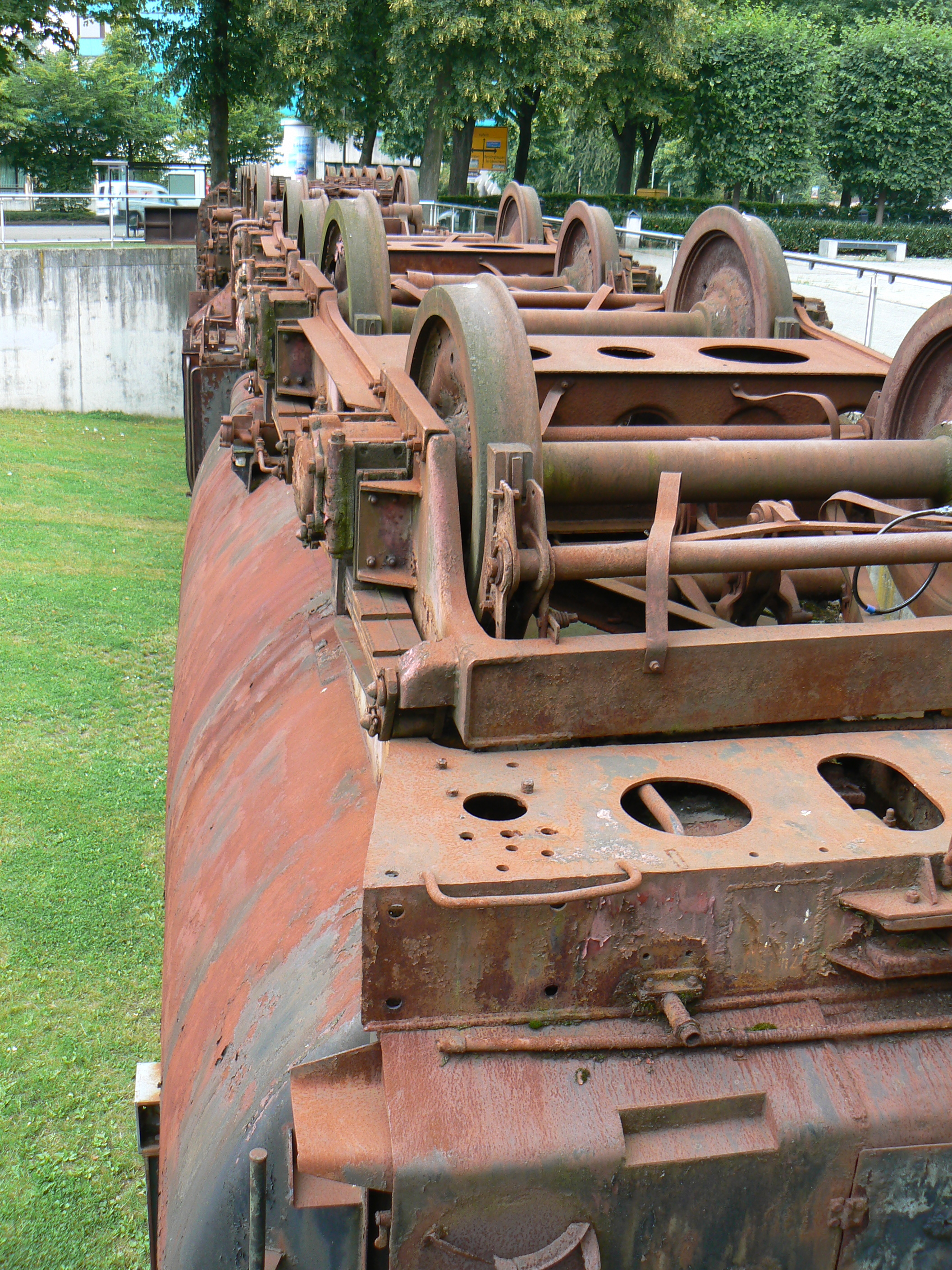 Collection: Skulpturenmuseum Glaskasten Location: City Center Marl/Germany Sculpture: La Tortuga 1987/1992 Sculptor: Wolf Vostell